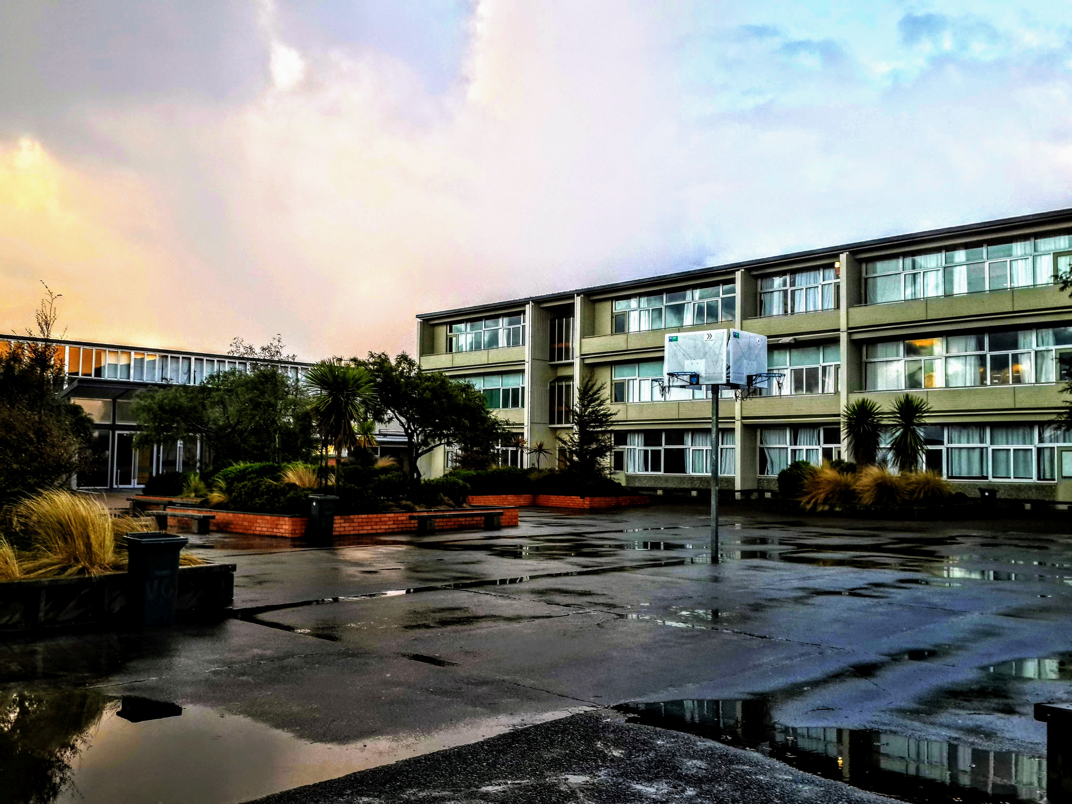 The Quad and the Dominic Block of the school